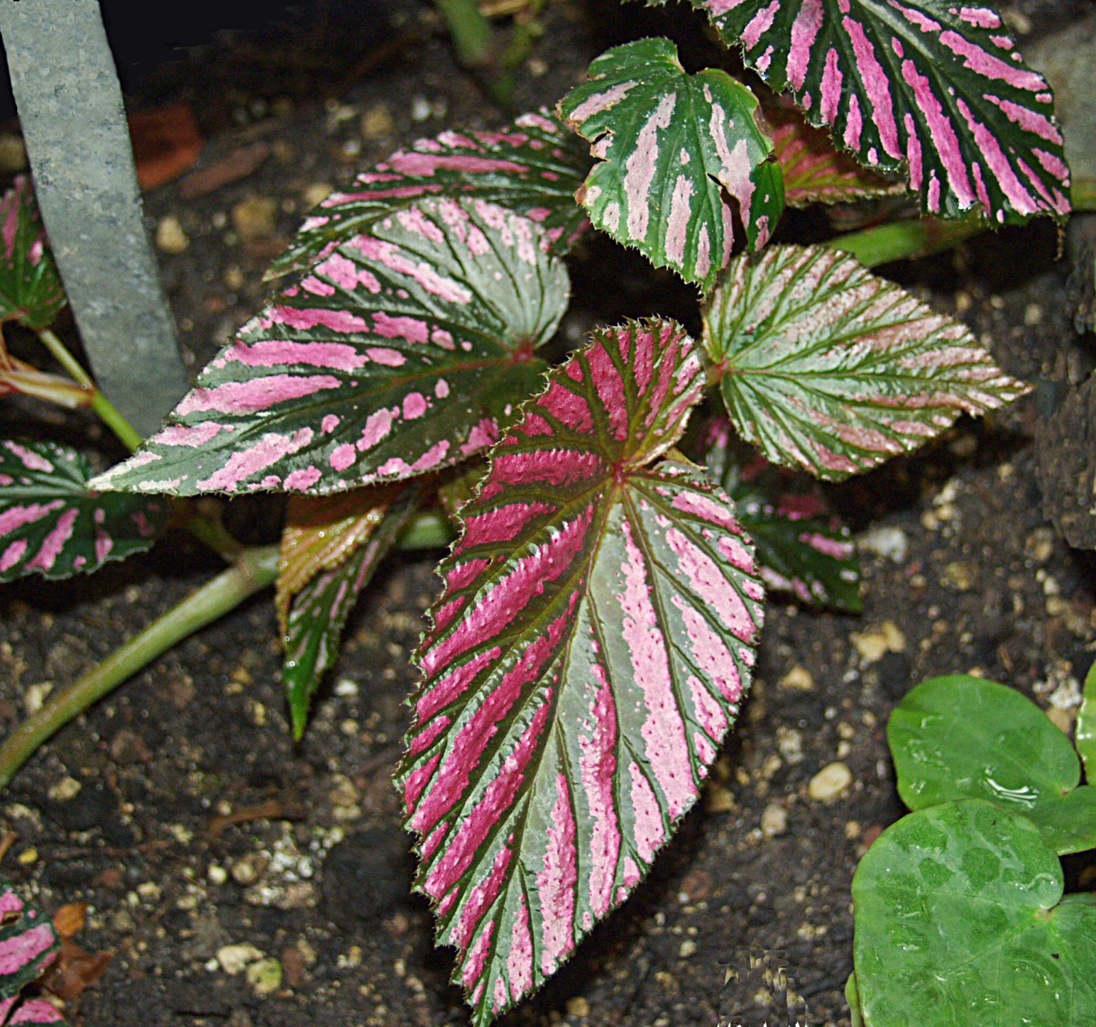 Leaves of Begonia exotica at Botanical Garden Cologne ("Flora")